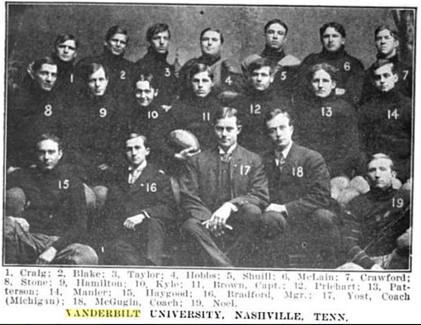 Vanderbilt Commodores football team picture, including Michigan coach Fielding Yost